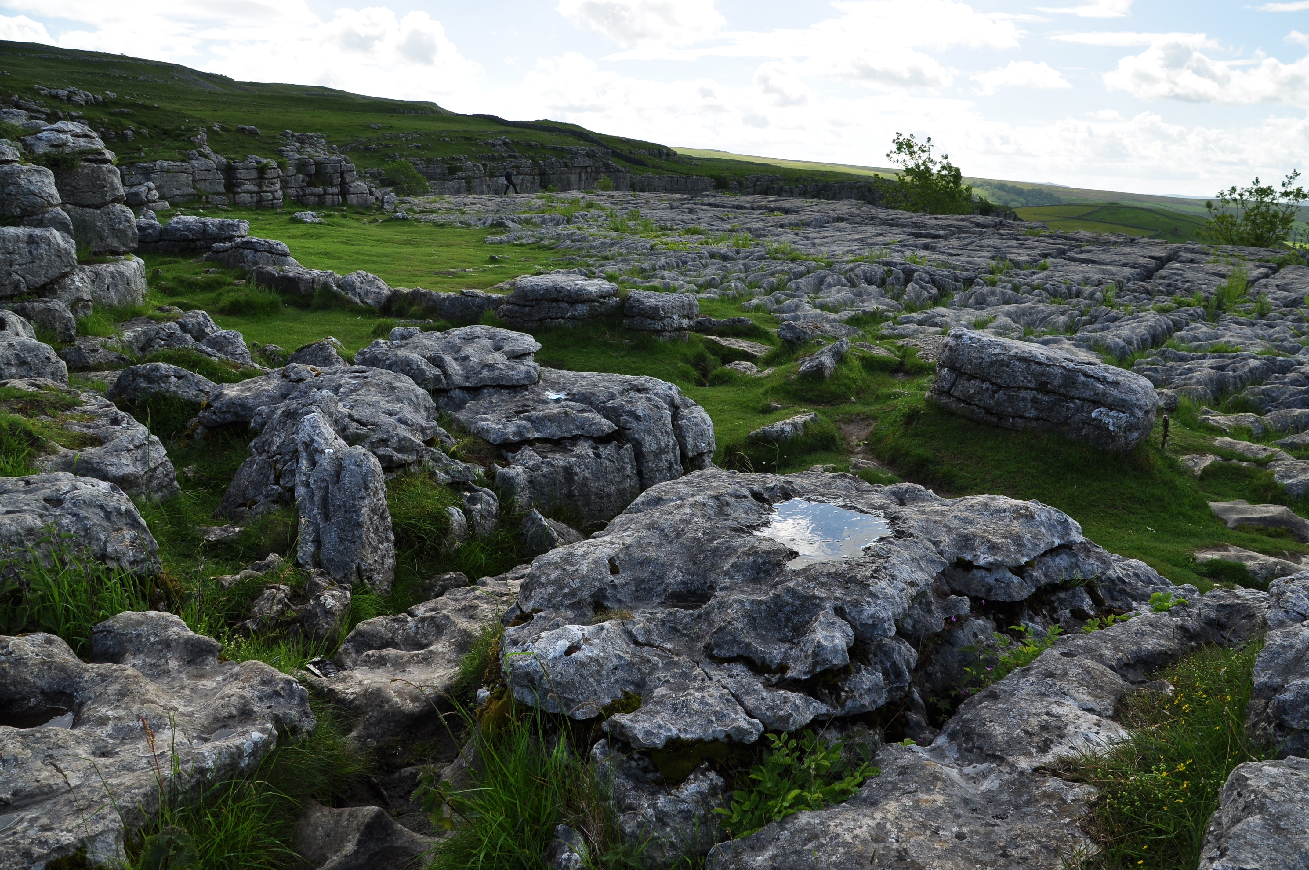 Limestone pavement above Malham Cove